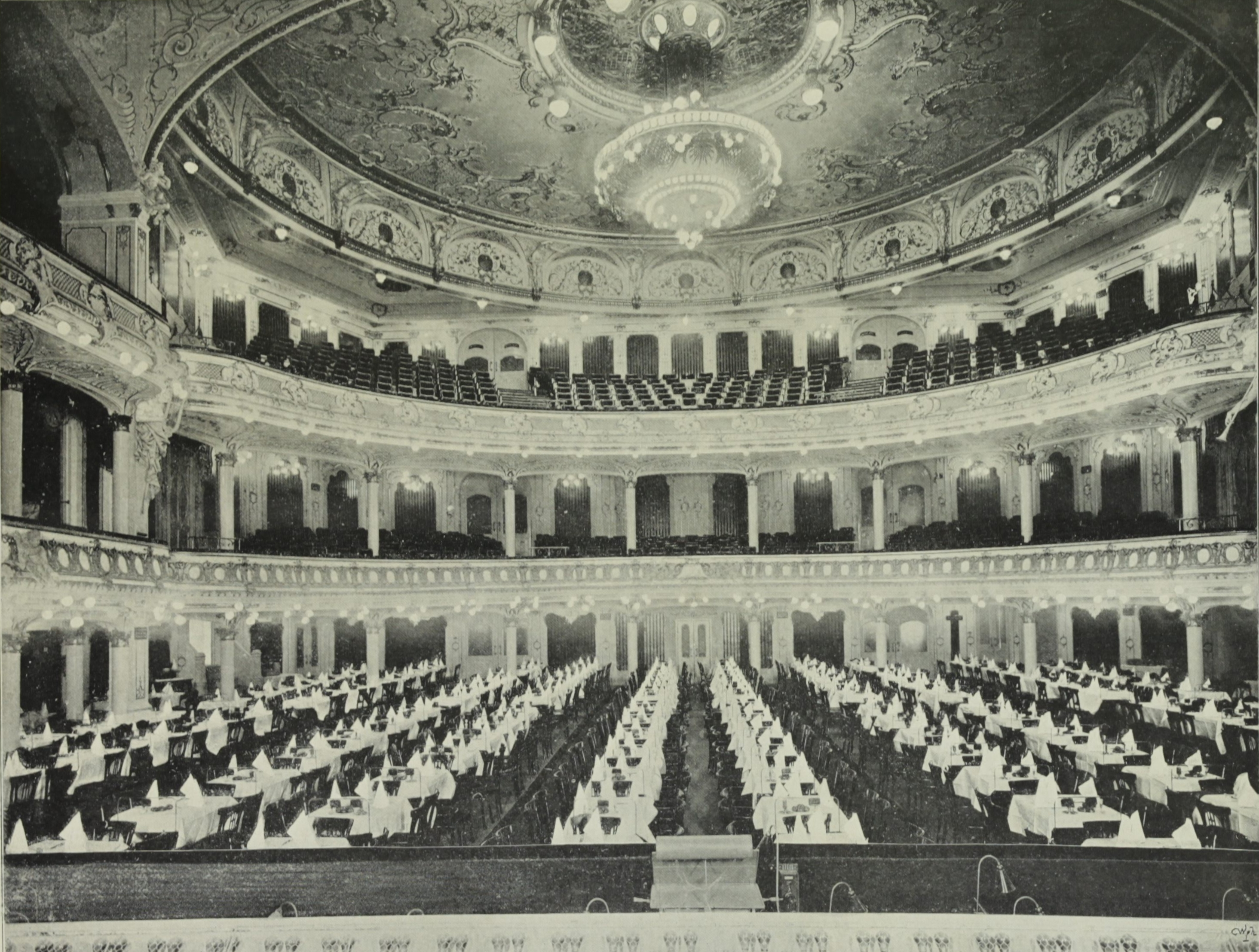 Apollo-Theater, Vienna. View of the auditorium. Photo a. 1904